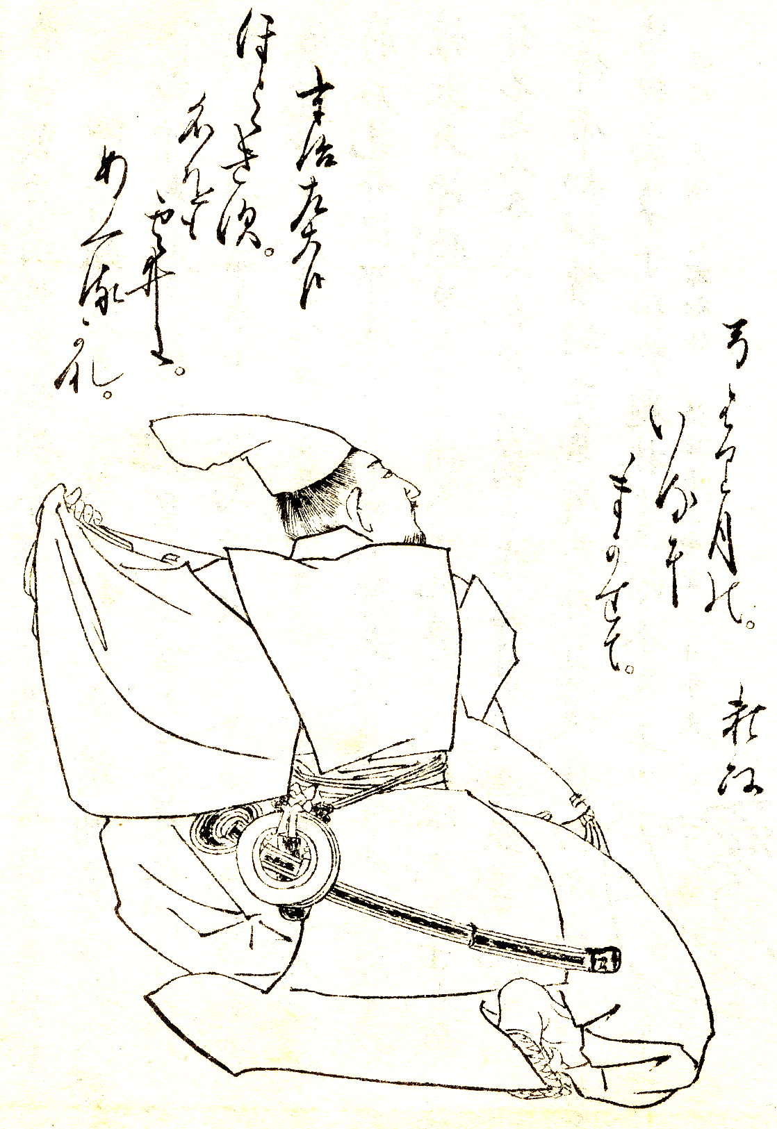 Minamoto no Yorimasa(源頼政)was a prominent Japanese poet whose works appeared in various anthologies.This picture was drawn by Kikuchi Yosai（菊池容斎） who was a painter in Japan.